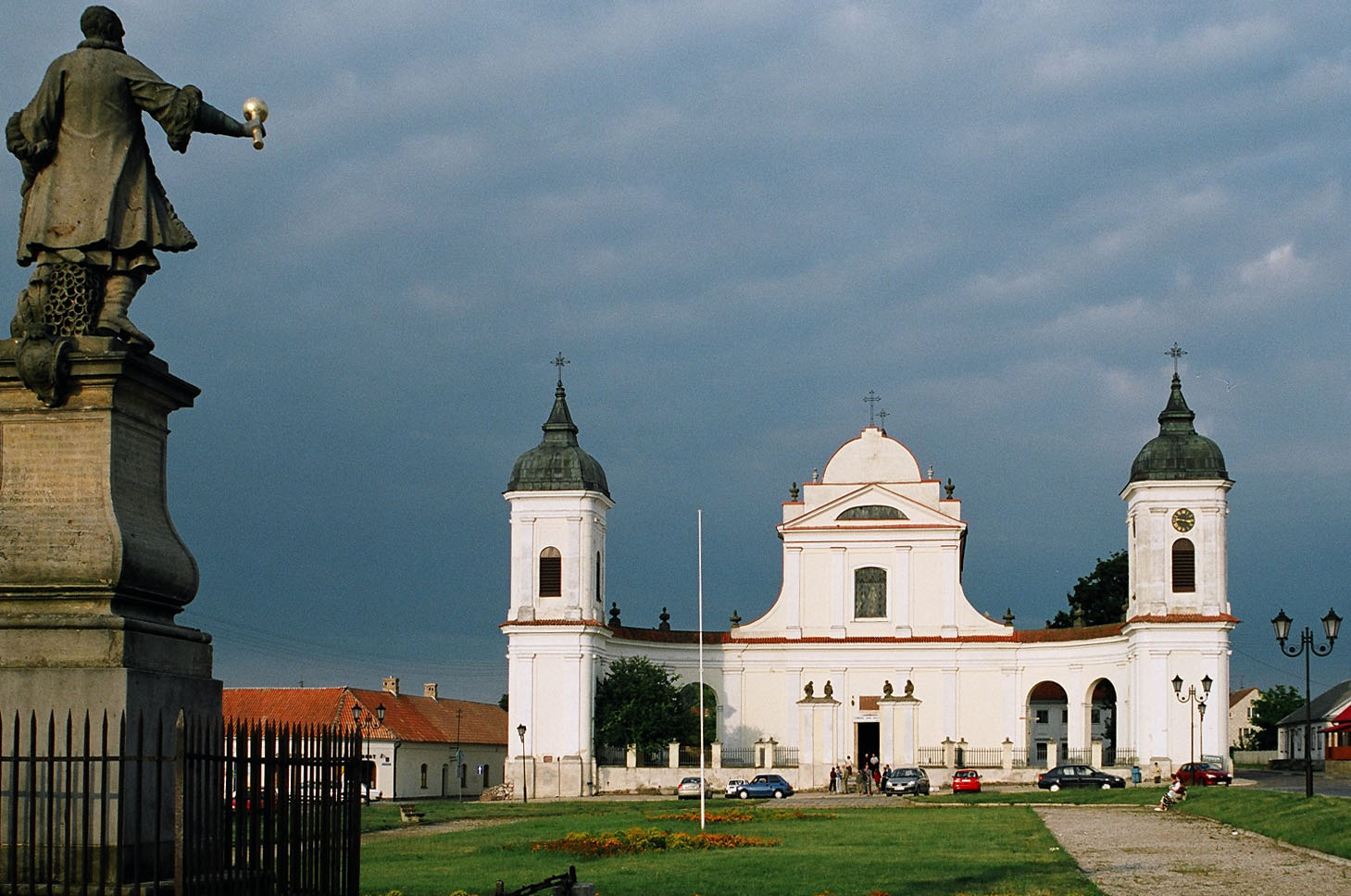 Tykocin, church of the Holy Trinity and monument to Czarnecki